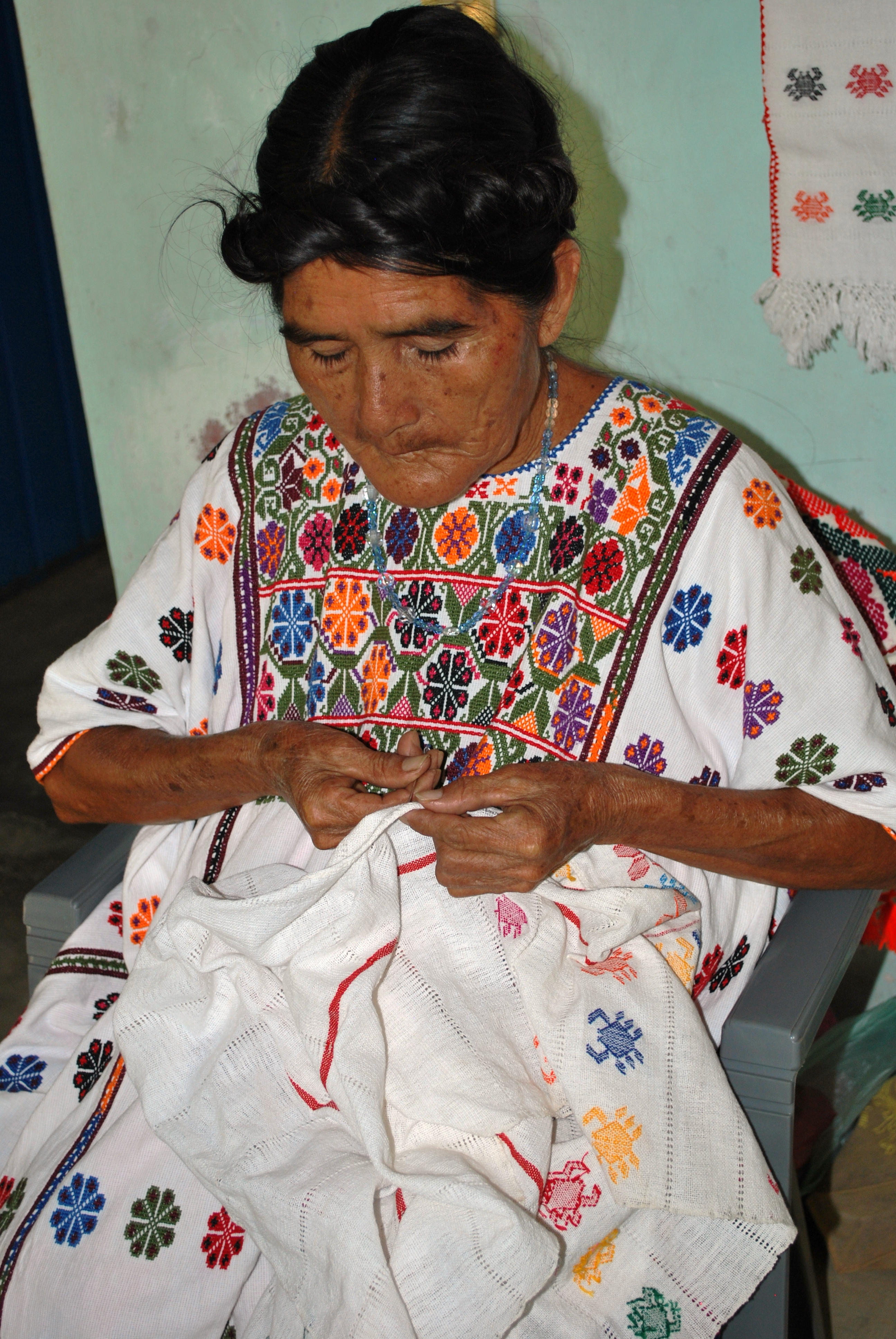 Amuzgo woman joining handwoven cloth to make a huipil in Xochistlahuaca, Guerrero